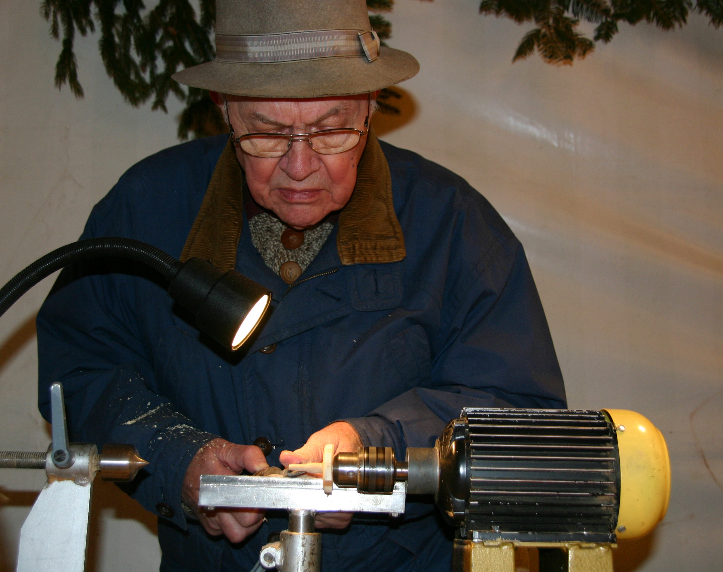 German woodturner. Travelling equipment at Christmas market in Hauenstein.